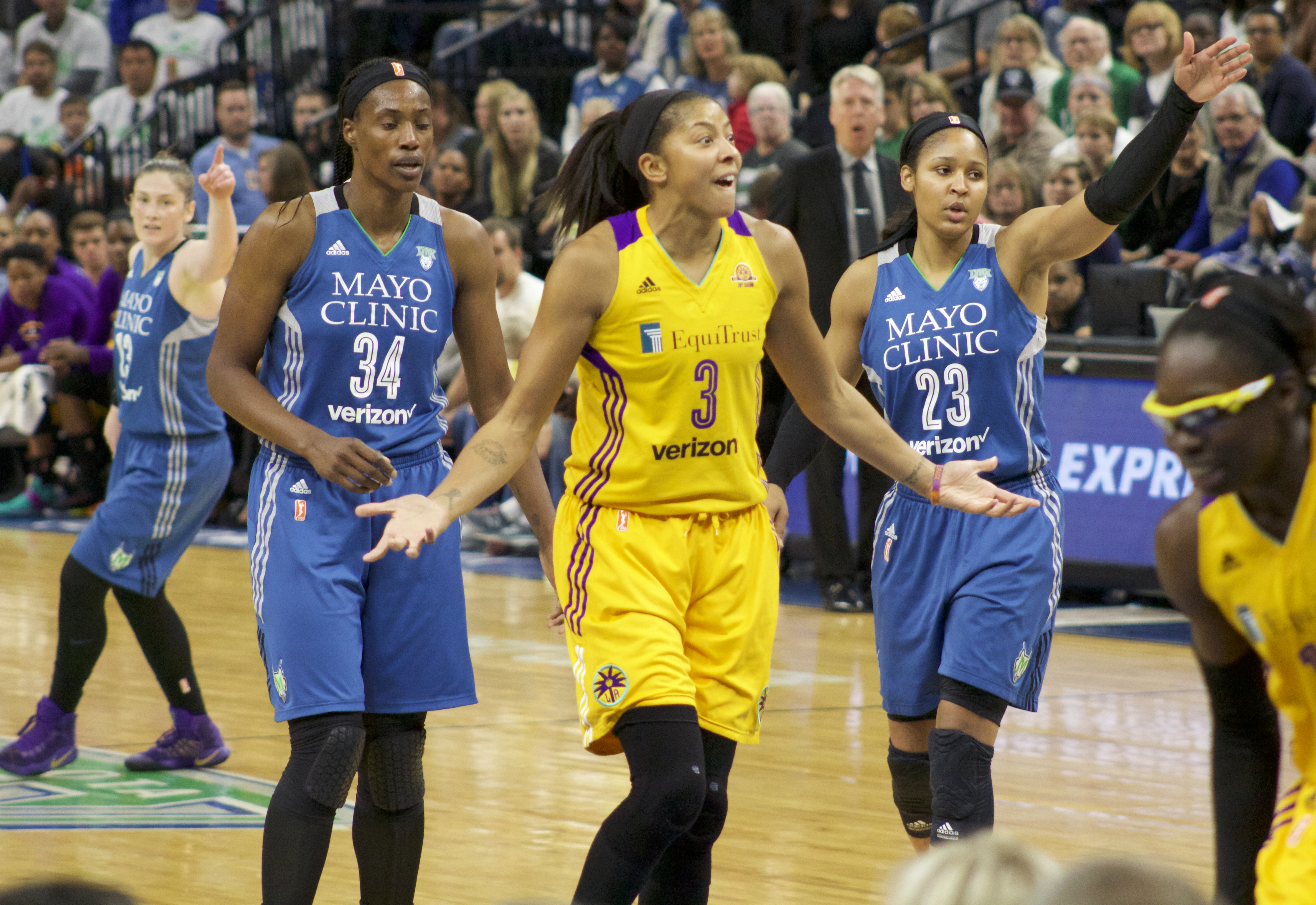 Candace Parker of the Los Angeles Sparks surrounded by the Minnesota Lynx